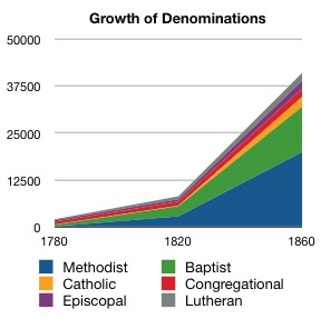 "Growth of Denominations" during the Antebellum Age. The data is the number of churches operated by the six denominations. the data presented here is based on the data at James A. Henretta et al. (2010) America's History, Combined Volume Bedford/St. Martin's. p. 259, which repeats the 1987 edition vol 1 p 347. The original data source is Gaustad, Edwin Scott. Historical atlas of religion in America (2nd ed HarperCollins Publishers, 1976) pp 4, 43.